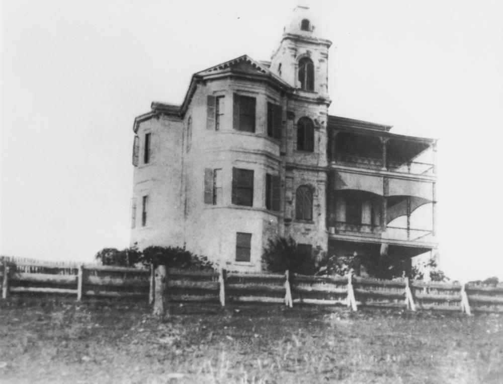 Back view of Palma Rosa at Hamilton built by Andrea Stombuco